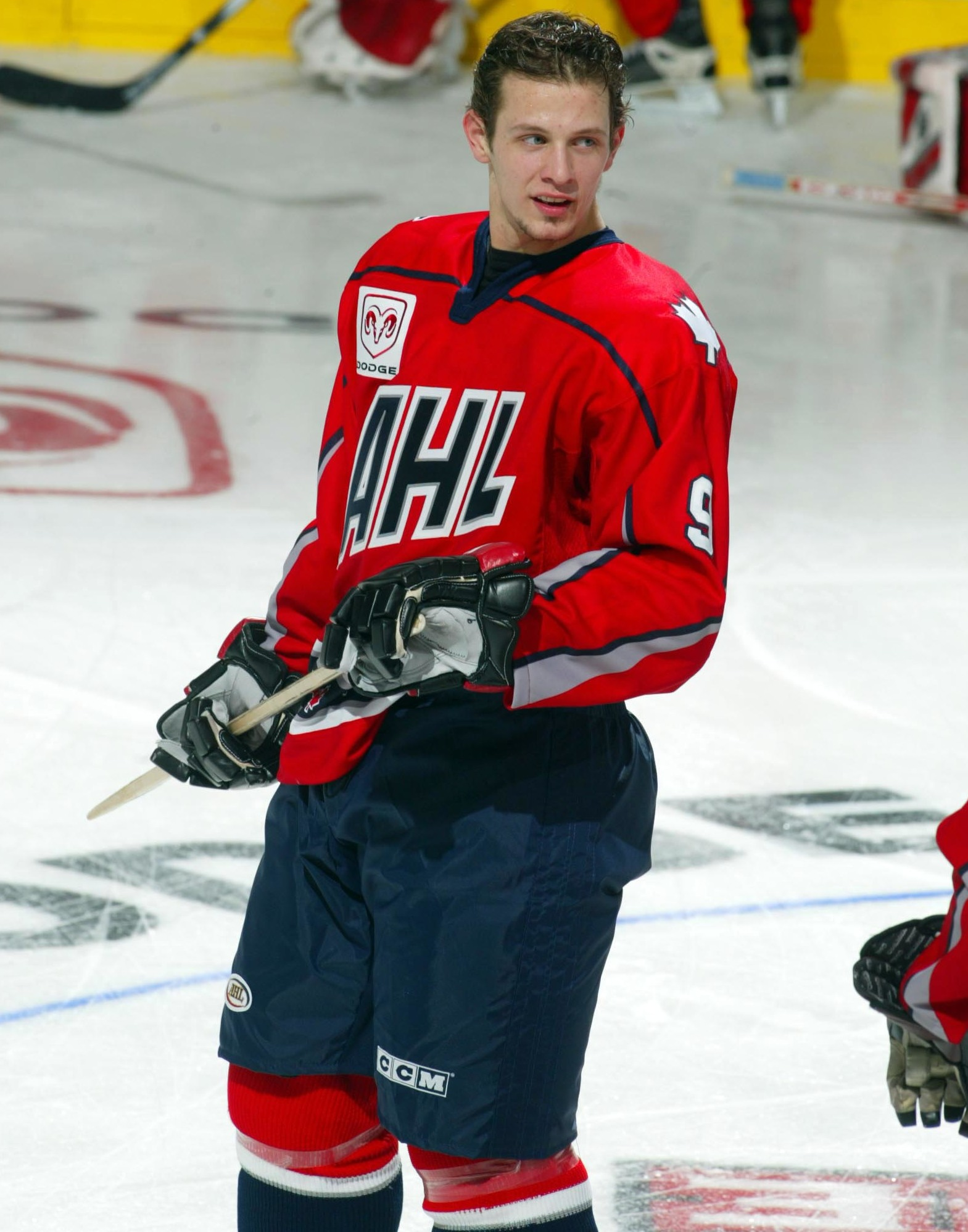 Photo: Jason Pulver/AHL